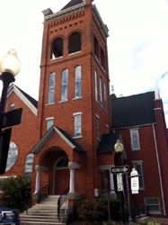 First Baptist Church at the corner of Old and Anderson Streets. Photo taken by Webelos Scouts of Den 3, Pack 895.